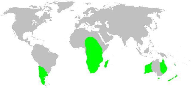 Migidae habitat distribution, drawn after Platnick: World Spider Catalog 7.0. This is not a precise rendering of the distribution! If you have better information, please replace this map, or send me the info, so i will redraw it.